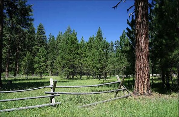 Ponderosa pine forest near Deep Springs in the Ochoco National Forest in central Oregon